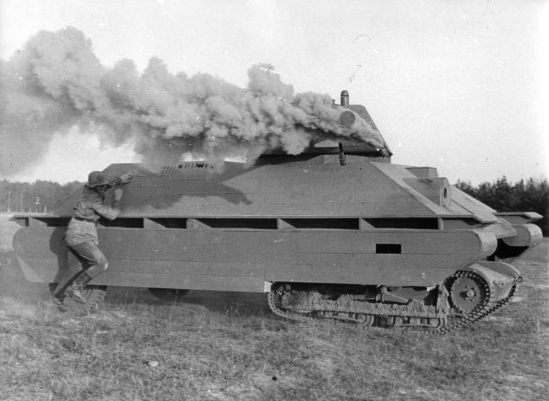 A German mock-up of T-34 tank, for training, upon a chassis of the Polish tankette TKS